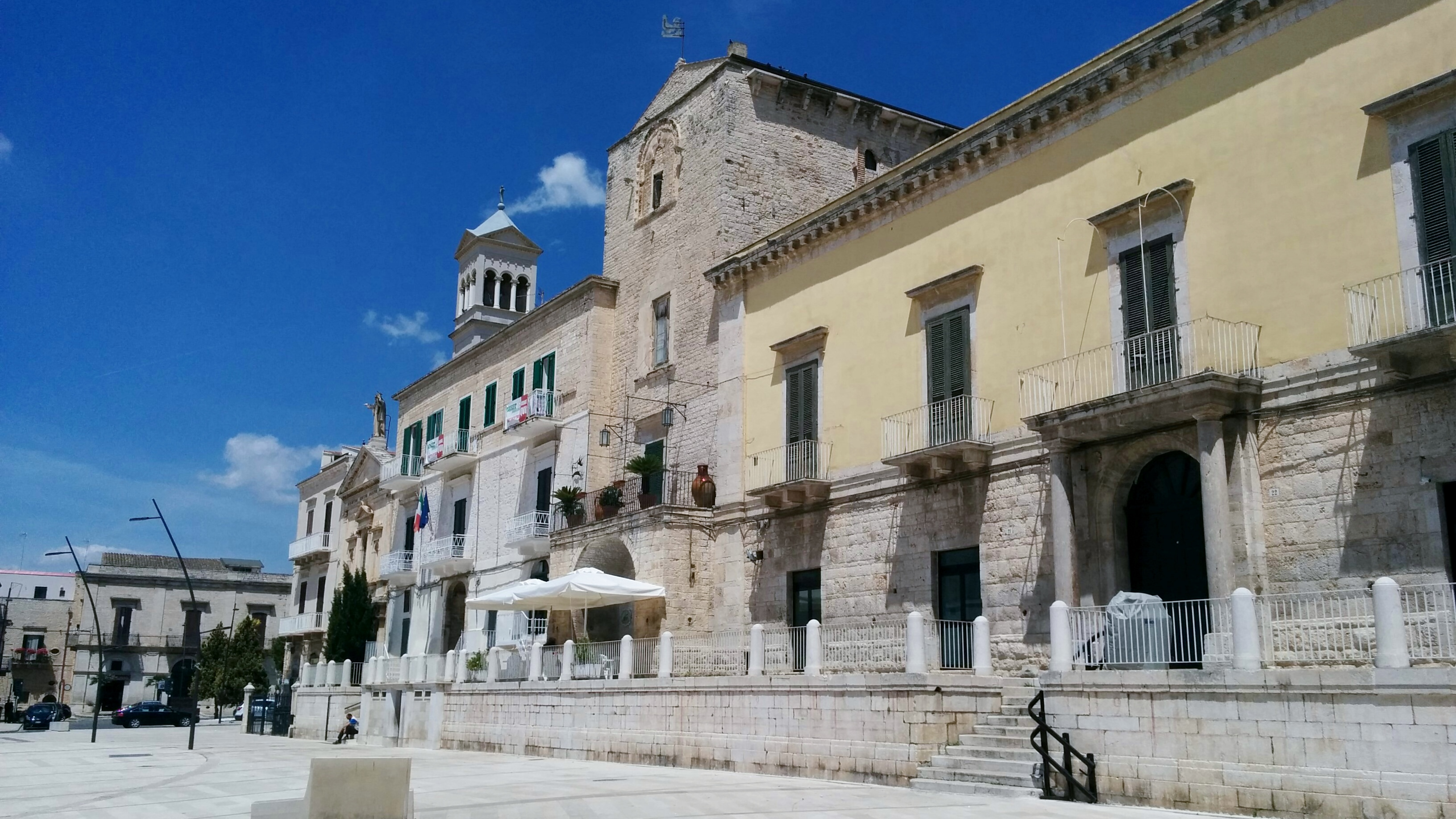 Melodia's Palace and the Castle in Matteotti square, Ruvo di Puglia